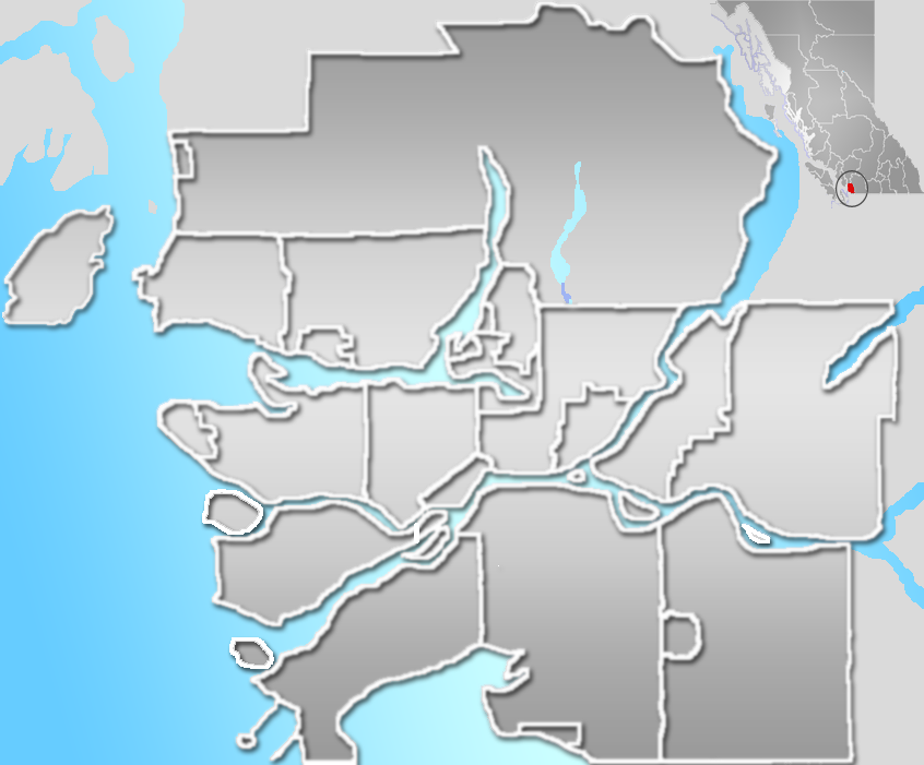 Blank map of the Greater Vancouver Area, British Columbia, Canada